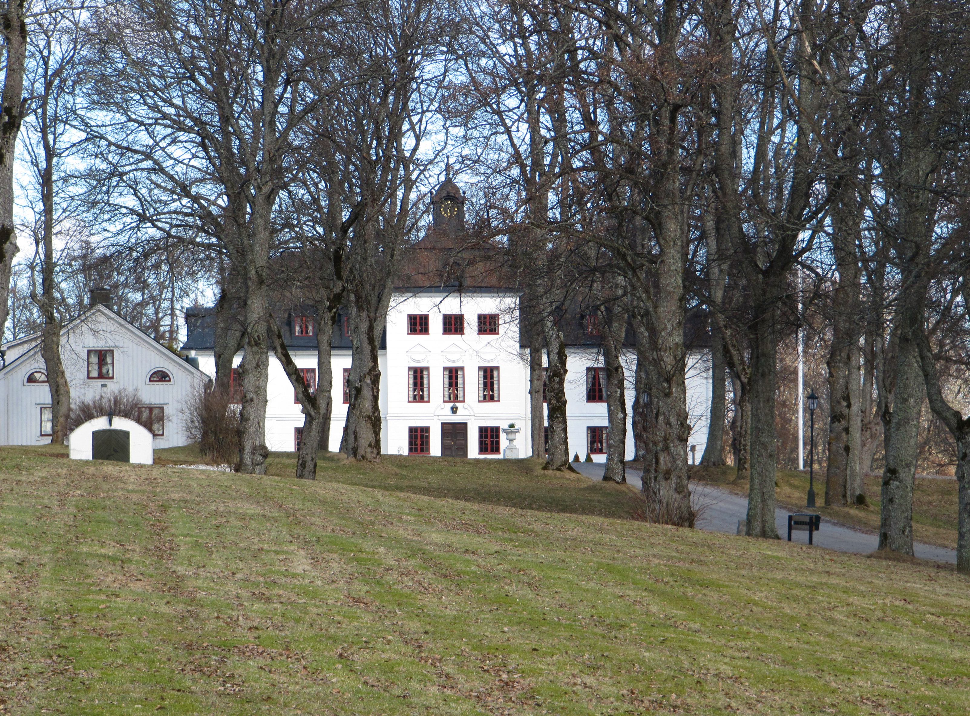 The manor Kåvi outside Örebro, Sweden